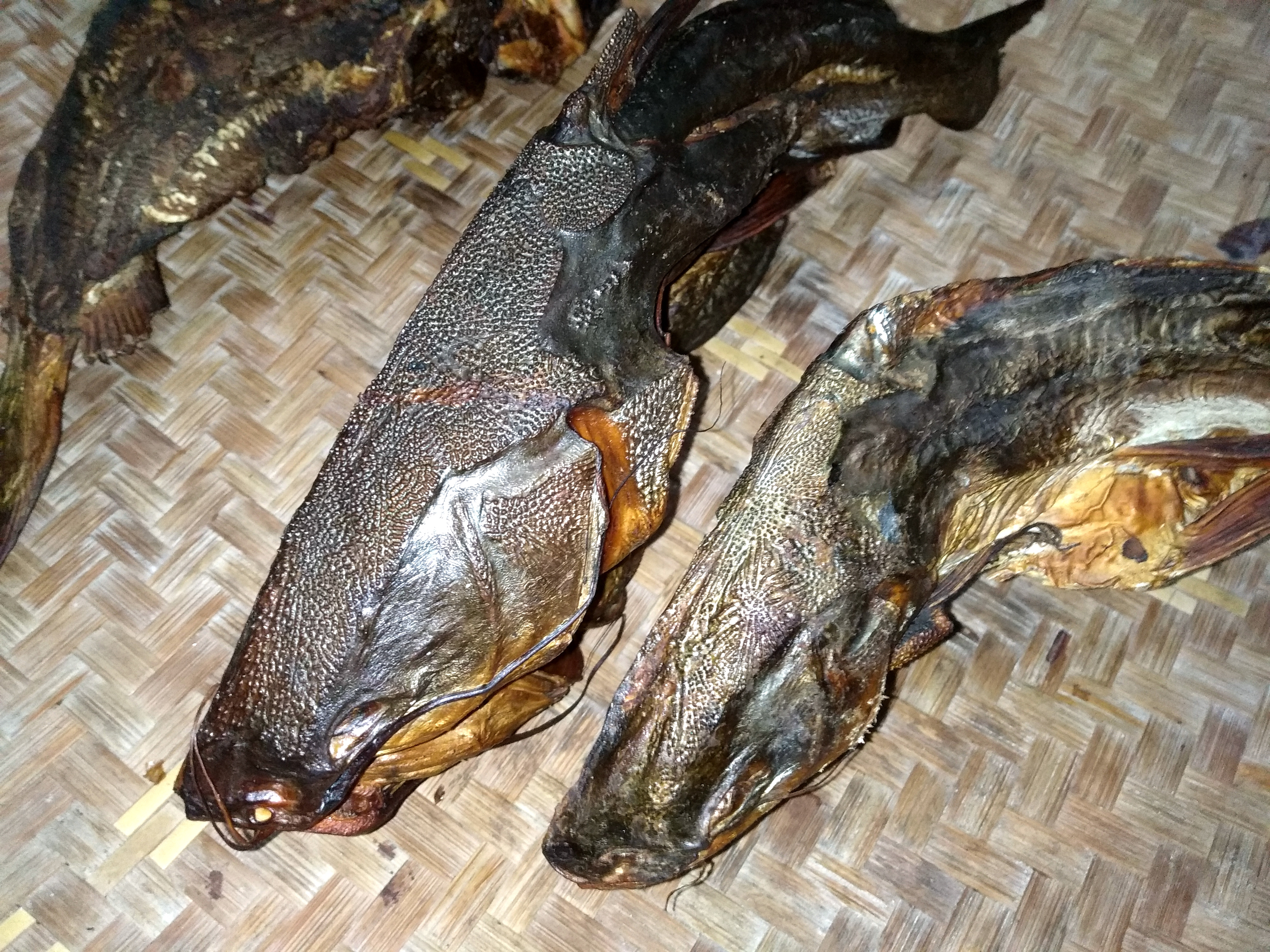 Ikan salai (smoked fish) of kedukang (Hexanematichthys sagor, Ariidae; bigger specimens, left and center), but sold as baung (Hemibagrus species of Bagridae; smaller one, right) at Pasir Gintung market of Bandar Lampung, Sumatra, Indonesia. Note the differences of their head patterns.